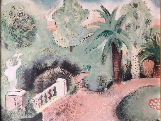 The painting Jardin du Luxembourg by Tulja Jenssen dates from the first post-war years. It belonged to Magdalena Christiansen, an artist friend, until 1980. She gave it to the user (Ulrich Schulte-Wülwer).